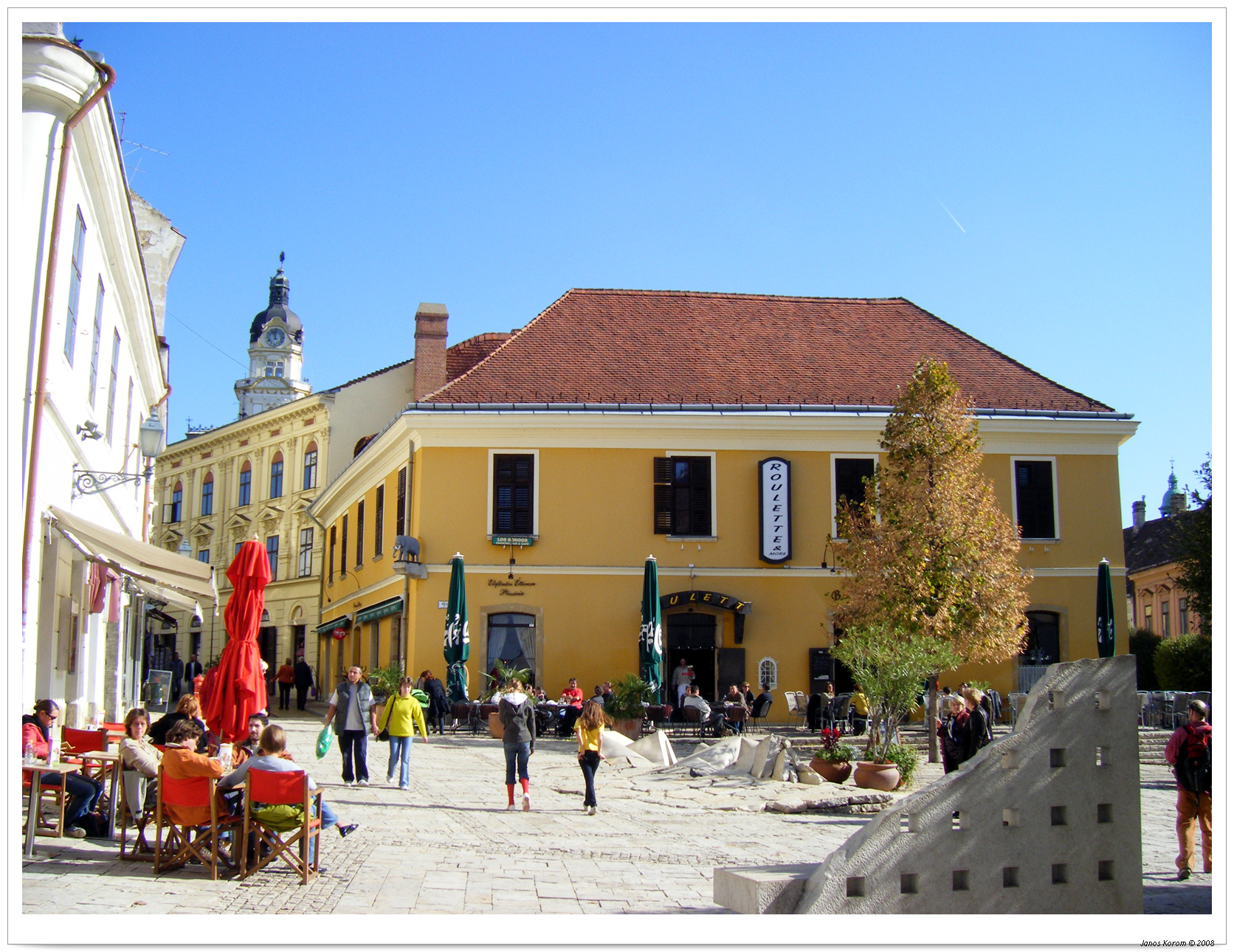 Jokai square